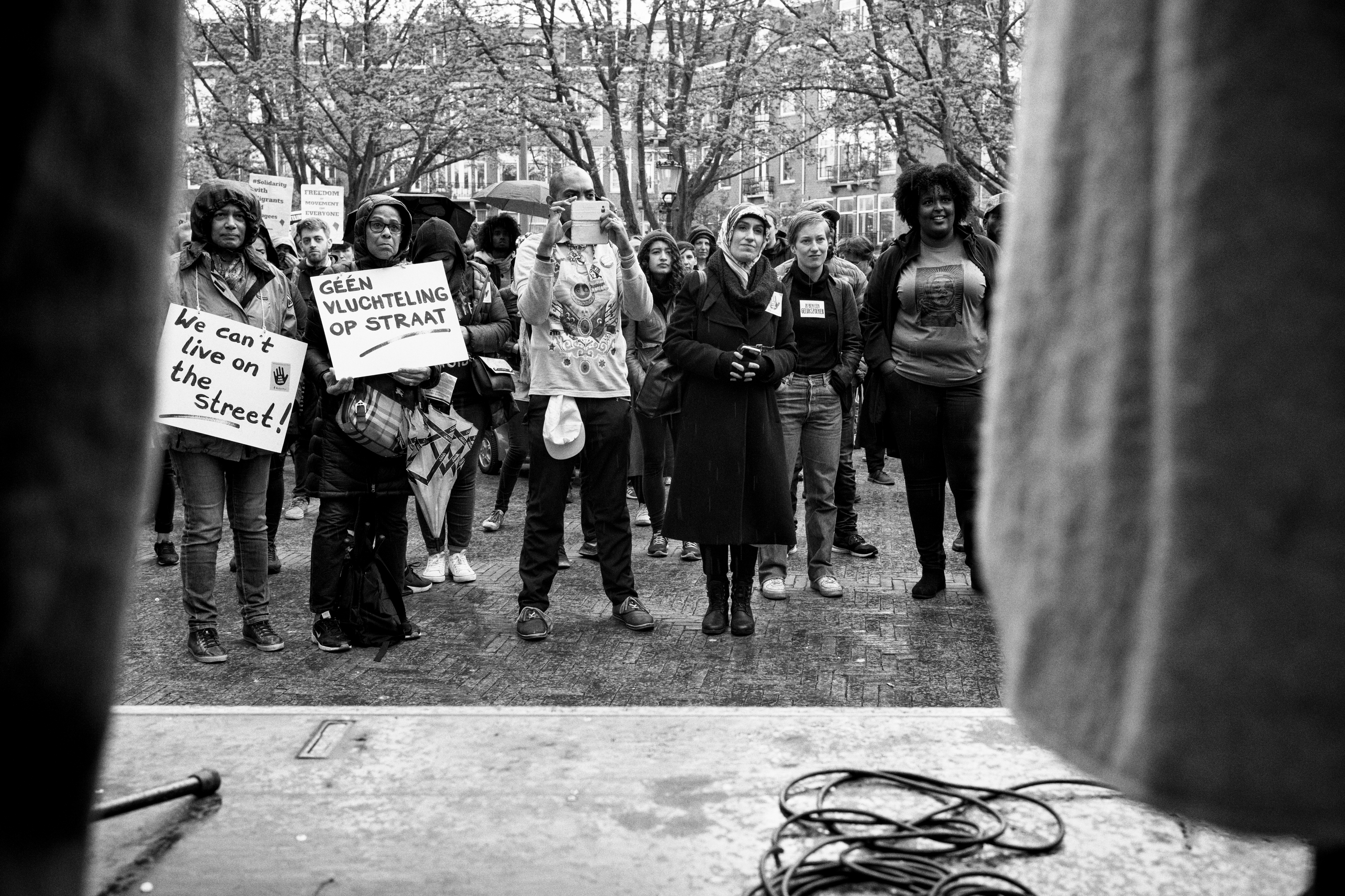 This photograph was taken by Guido van Nispen at a demonstration by We Are Here ( in Amsterdam on 28 April 2018. It was uploaded from Flickr.